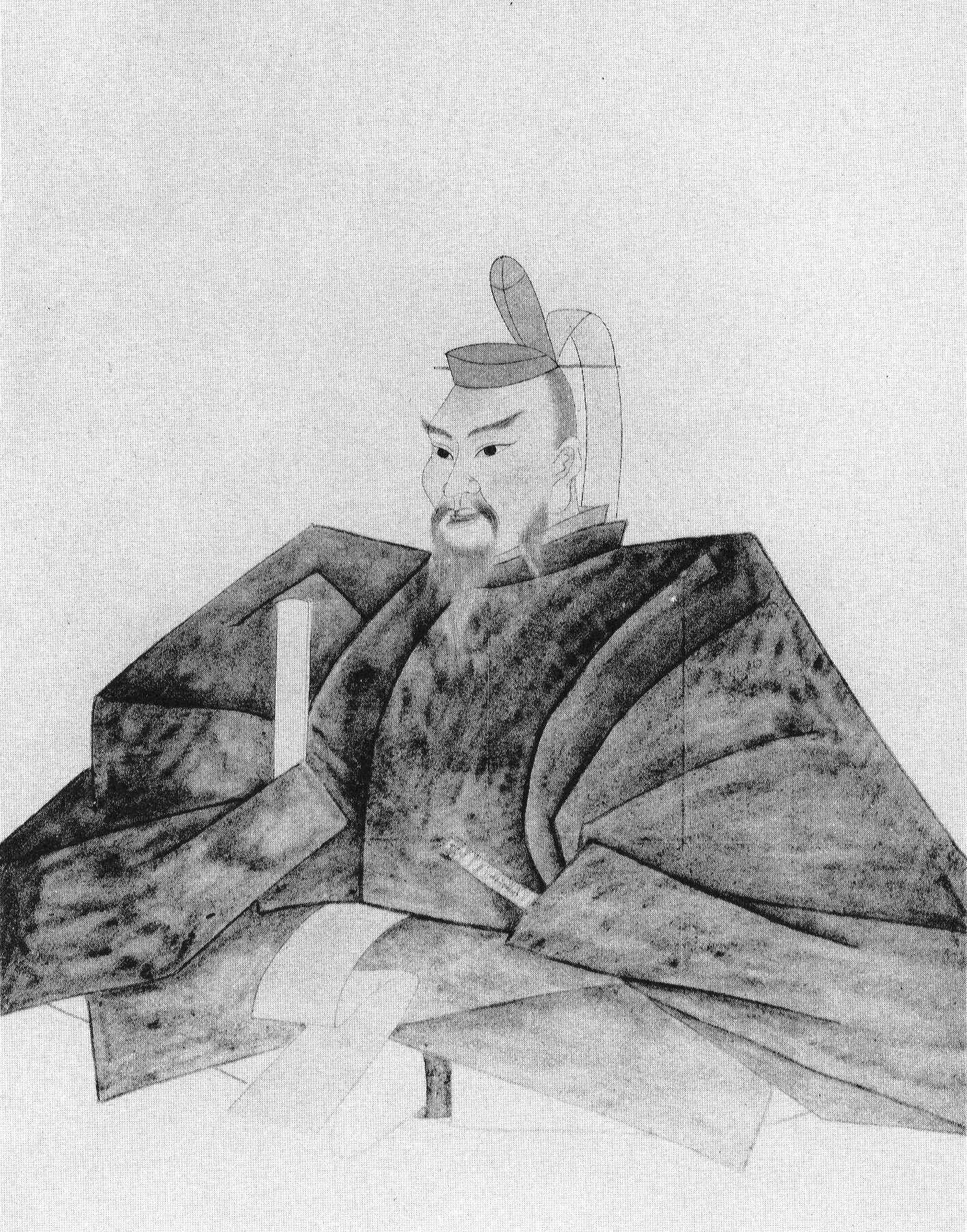 Portrait of Tō Tsuneyori